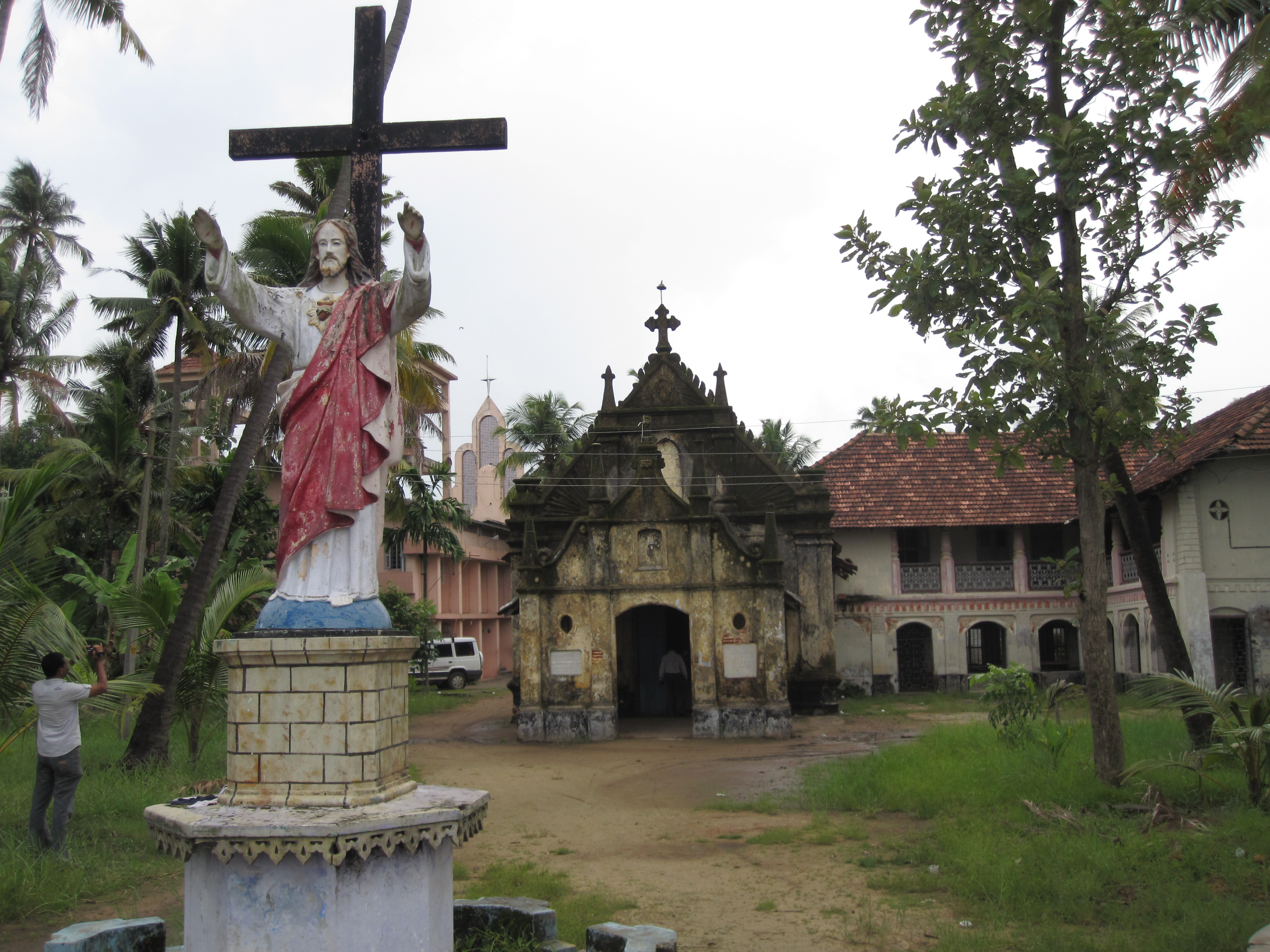 Kadamakkudy Syro-Malabar Catholic Church